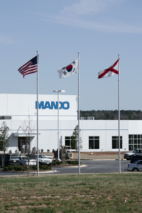 Mando Corporation Opelika, Alabama